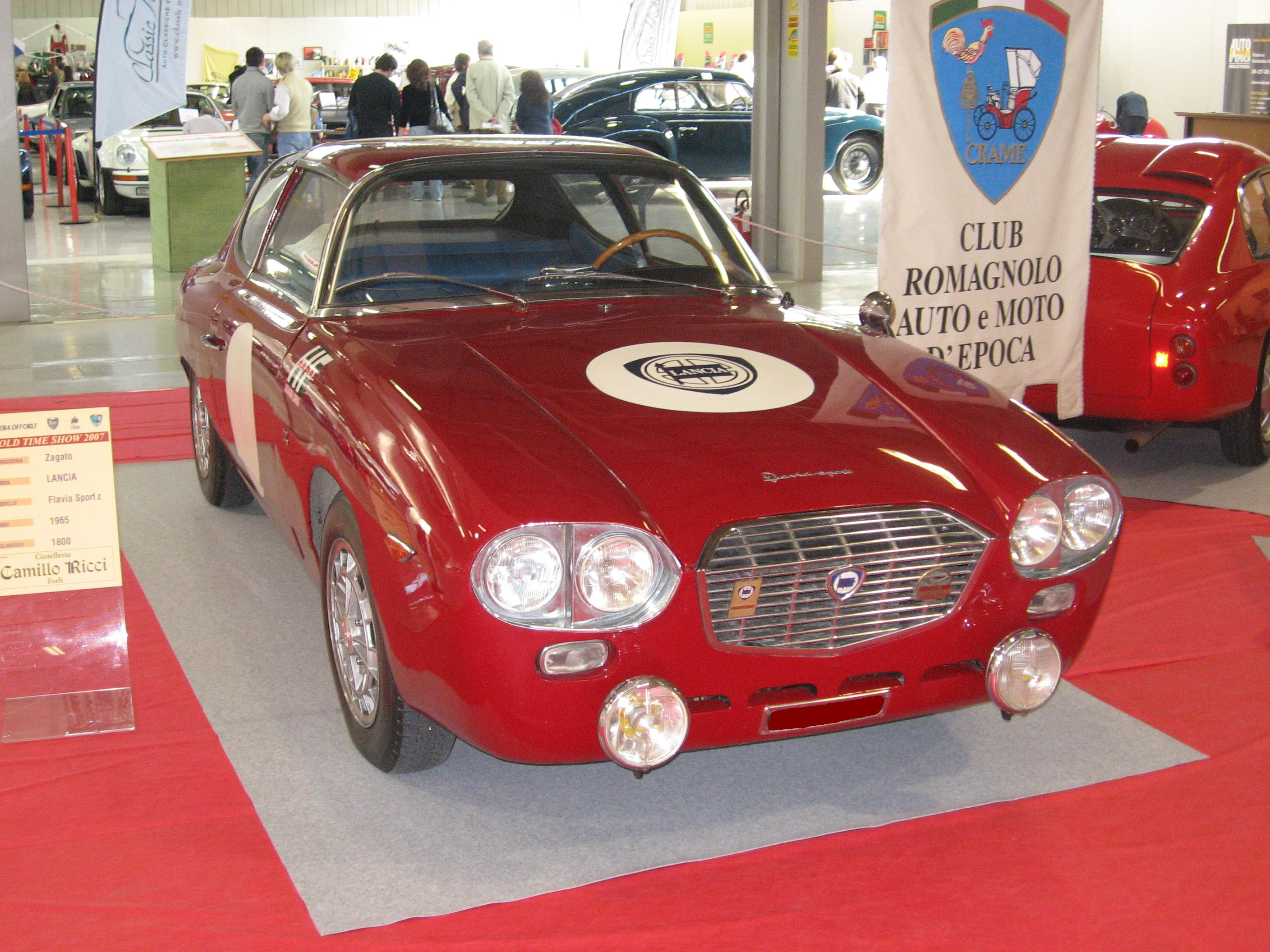 This photo shows a Lancia Flavia Sport Zagato.